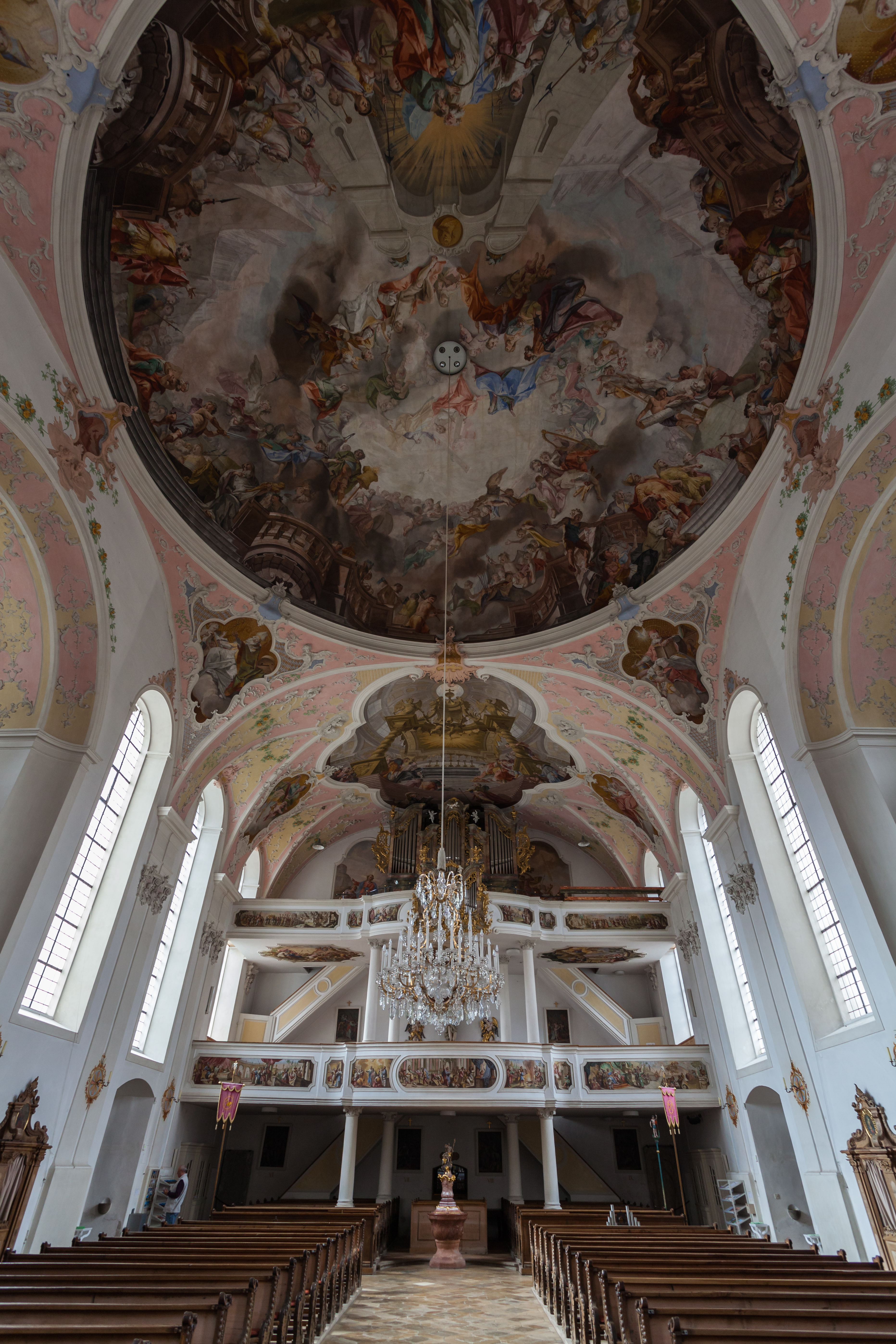 St. Peter and Paul church, Oberammergau, Bavaria, Germany